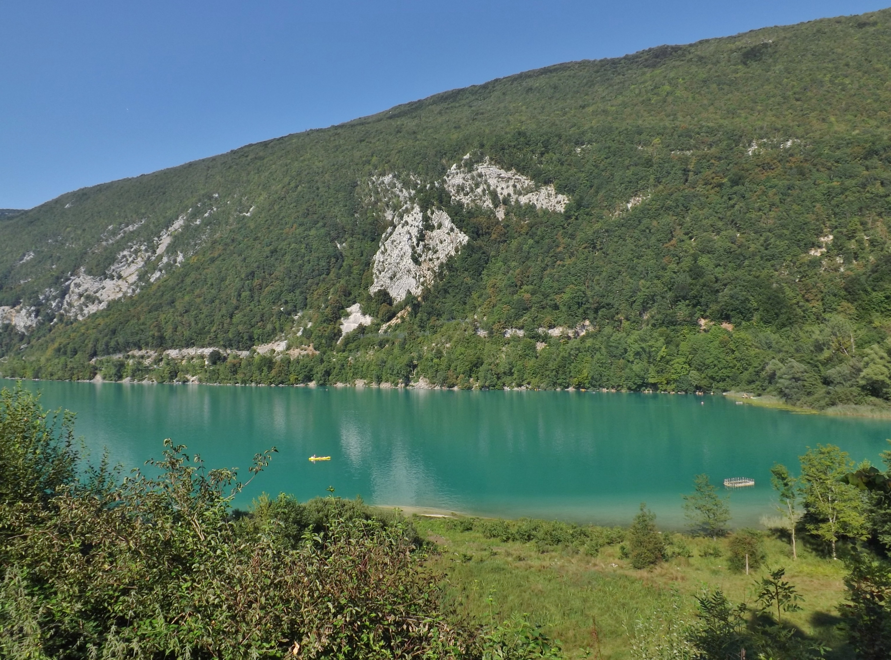 Sight of the cove situated on the eastern side of the lac d'Aiguebelette lake, at the foot of the chaîne de l'Épine mountain on La Combe hamlet (Aiguebelette-le-Lac), in Savoie, France.